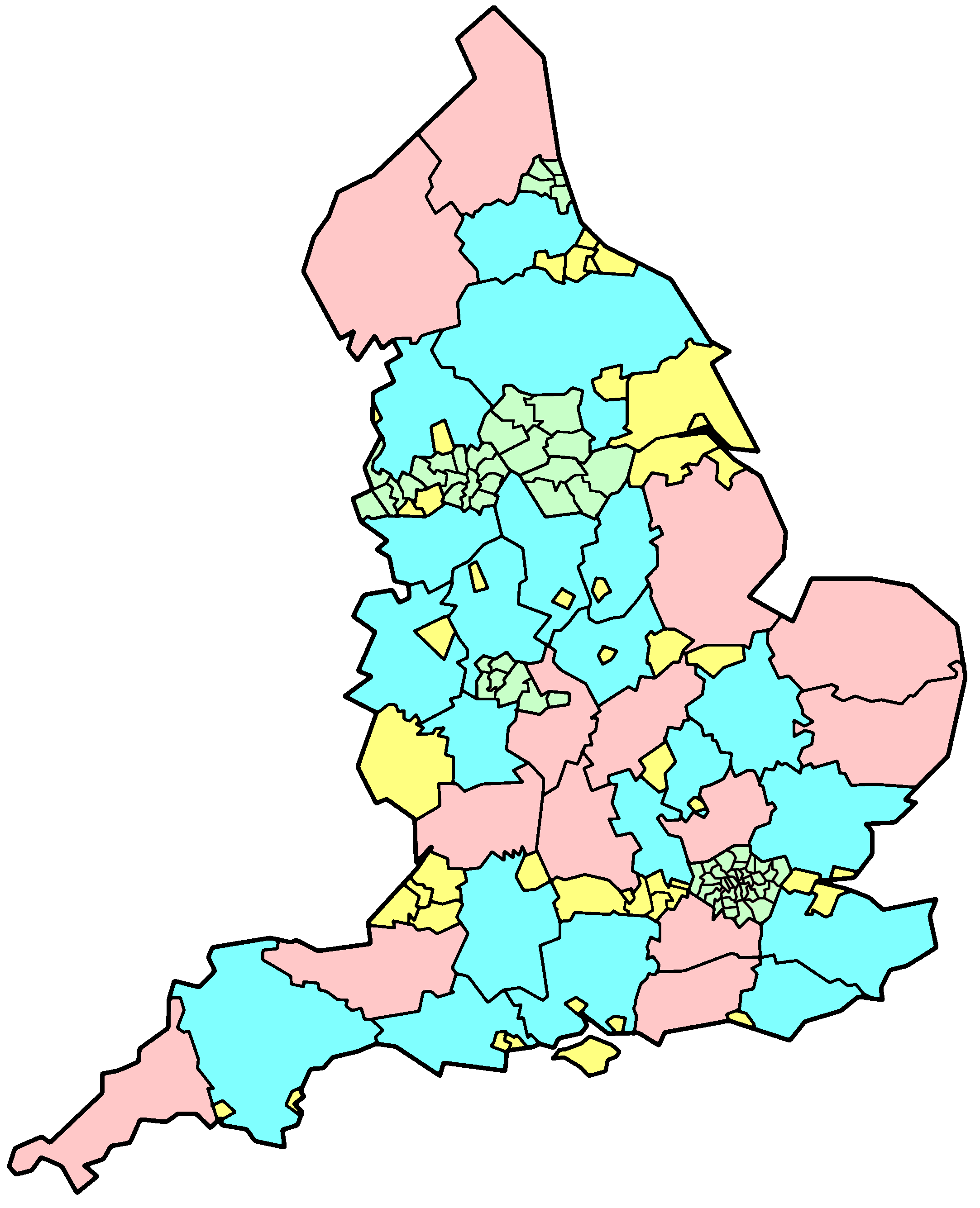 based on my Image:EnglandSubdivisions.png to indicate areas altered under the Local Government Commission for England (1992) non-metropolitan areas left unchanged metropolitan areas left unchanged unitary authorities created as a result of the review remaining two-tier counties reduced by the creation of unitary authorities